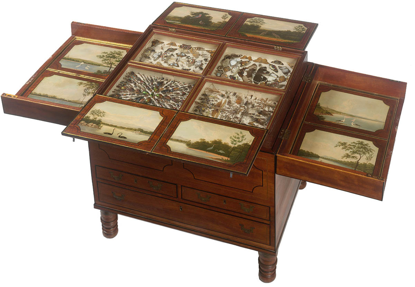 The Macquarie chest (sometimes known as the Strathallan Chest) has a provenance which can be traced back to Newcastle, New South Wales and to Governor Lachlan Macquarie (Governor of New South Wales between 1810 and 1822).